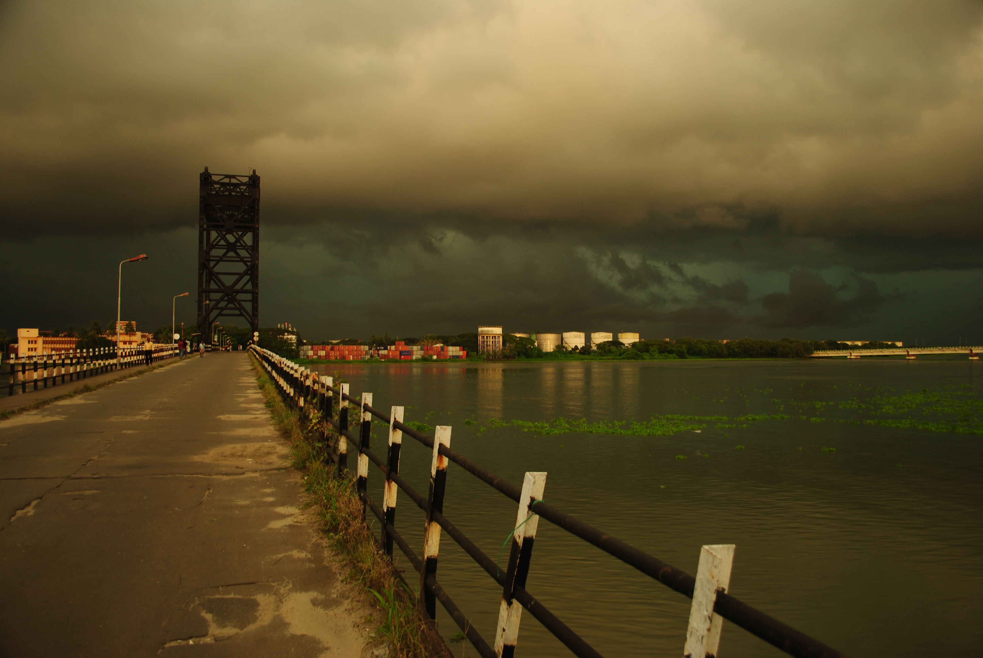 Old Mattancherry bridge , builded by British Government, connecting Thoppumpady to willington Island . Photograph taken prior to a heavy rain